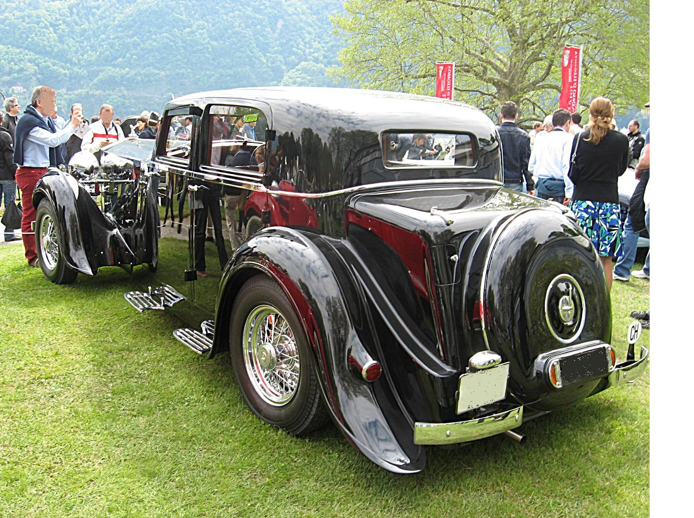 Subject: Rolls-Royce Phantom III (1937) Sports Saloon, coachbuilt by Barker, Chassis #3BU78 Author:Luc106 Date:April 27th, 2008 Event:Concorso d’Eleganza”Villa d’Este” 2008 Place/Country: Cernobbio (CO), Italy I release all rights in the public domain.